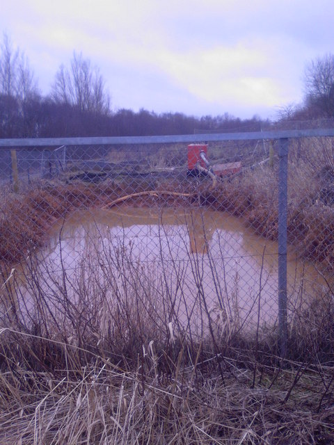 Linwood,Renfrewshire - Landfill Another view of the leachate tank. You can see the access track here. Main landfill mound to right in this shot. trees on left are boundary between landfill site and the Scot Lawn (Middleton) field.